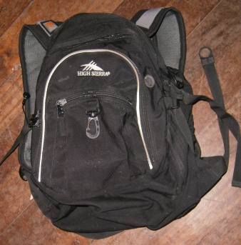 A photo of a High Sierra backpack manufactured by High Sierra Sport.